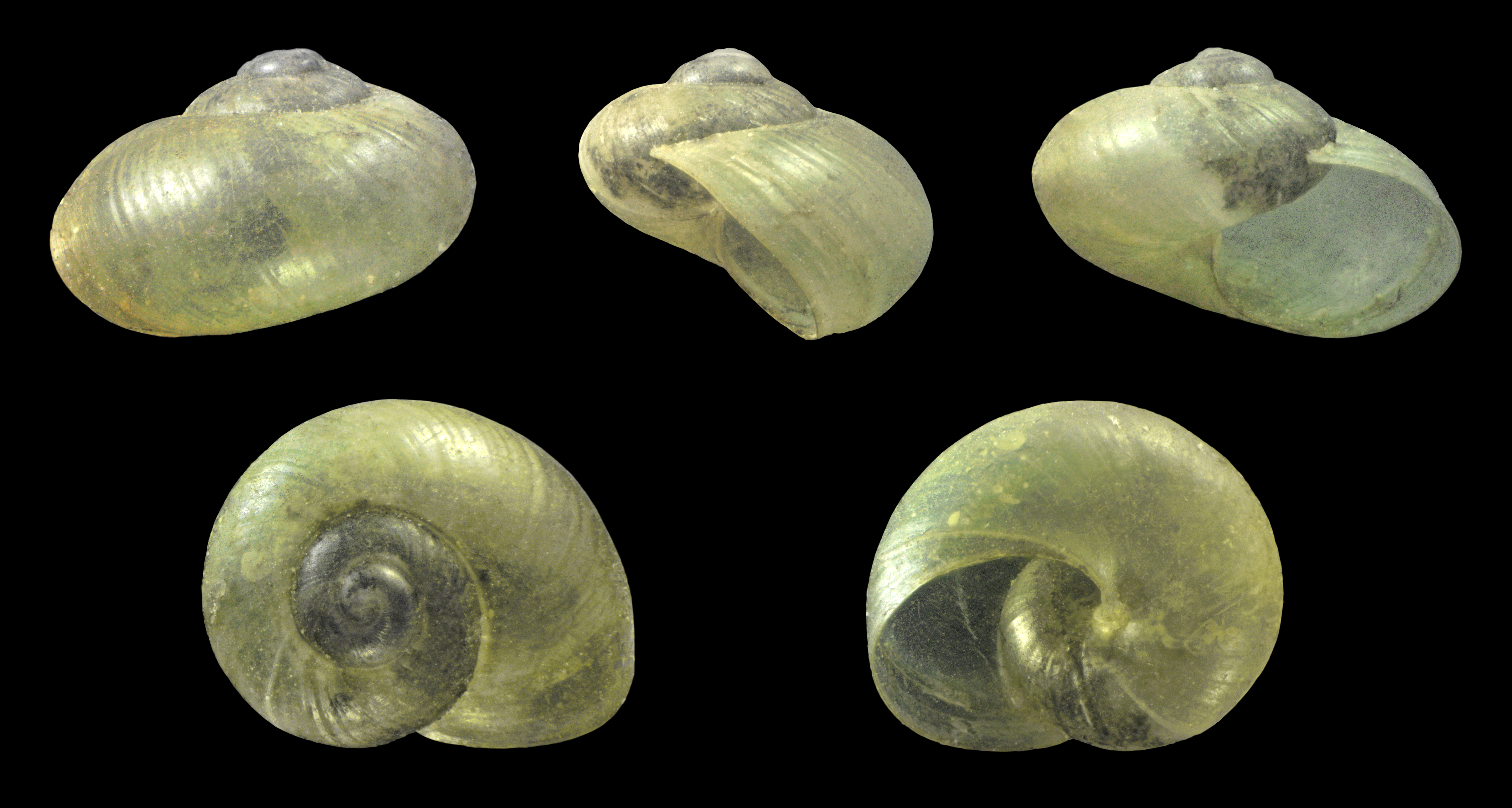 Vitrina pellucida (Müller, 1774); Diameter 0.4 cm; Originating from the Ermitage Notre-Dame-de-Pène, Pyrénées-Orientales, France; Shell of own collection, therefore not geocoded.